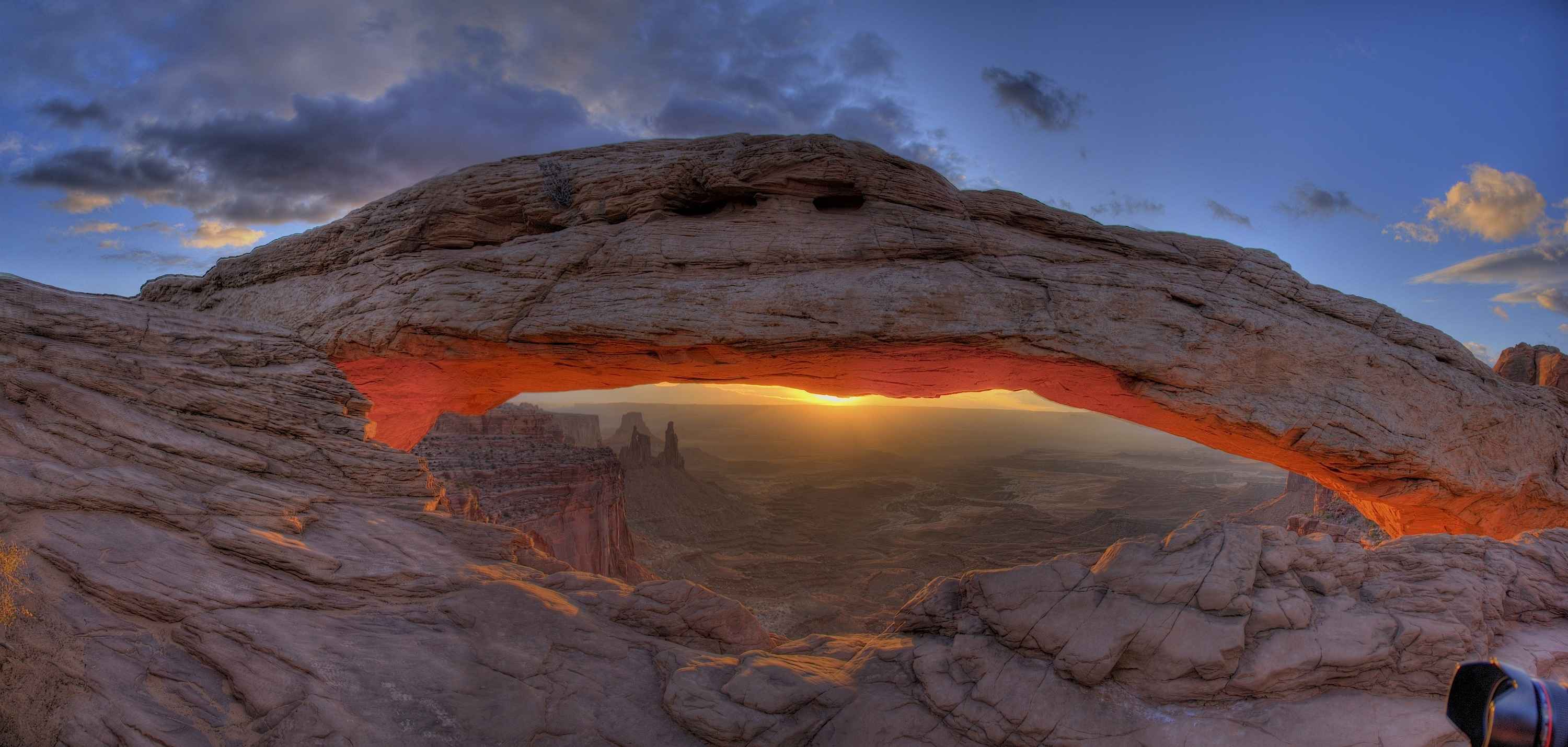 Sunrise HDR Pano -- just a quick paste together. Will do a better job when I get home.